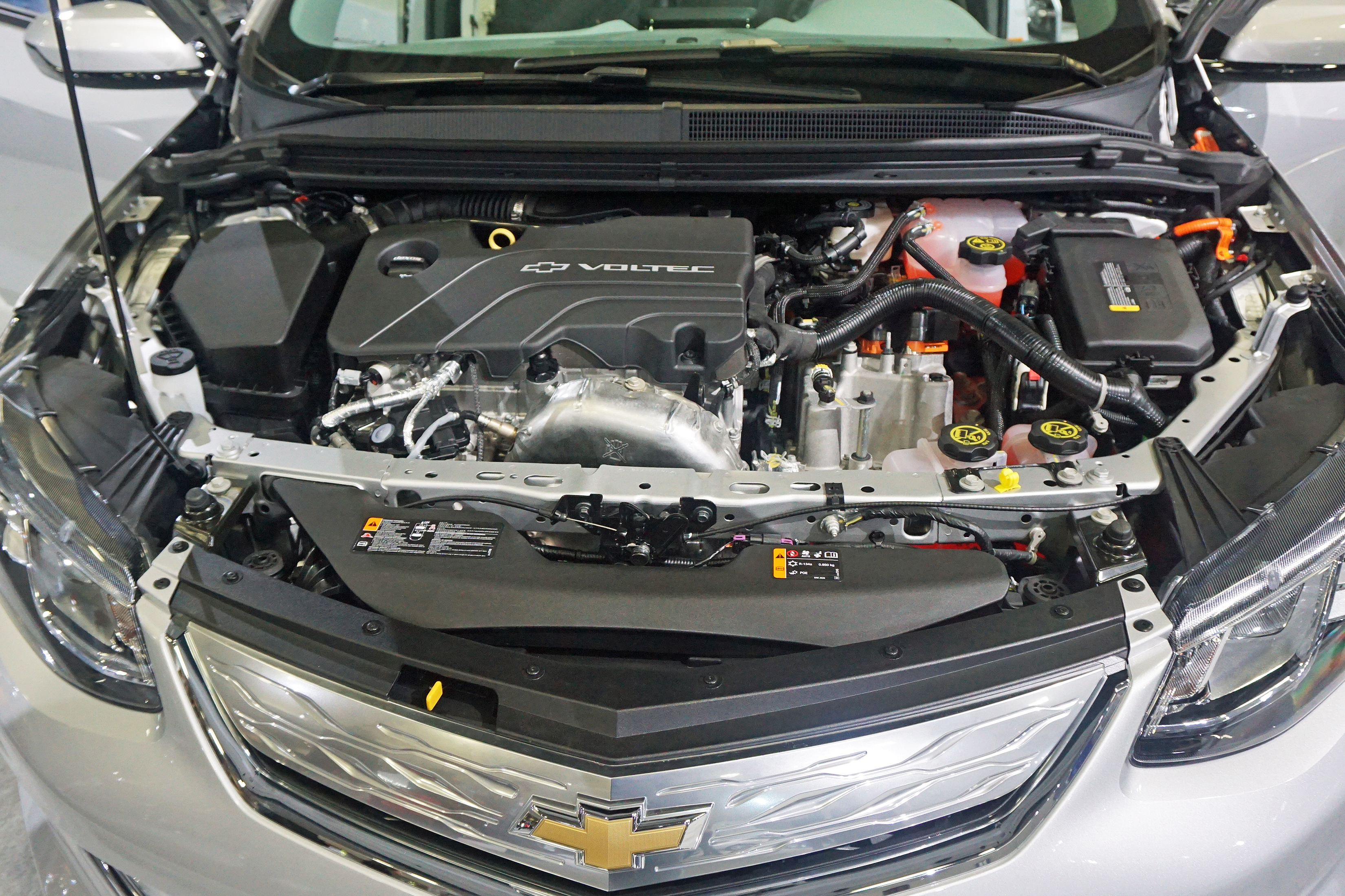 Voltec 1.5L gasoline-powered engine (left) and power inverter on top of the electric motor (right). 2017 Chevrolet Volt (second generation) exhibited at the 2017 Washington Auto Show, D.C., U.S.